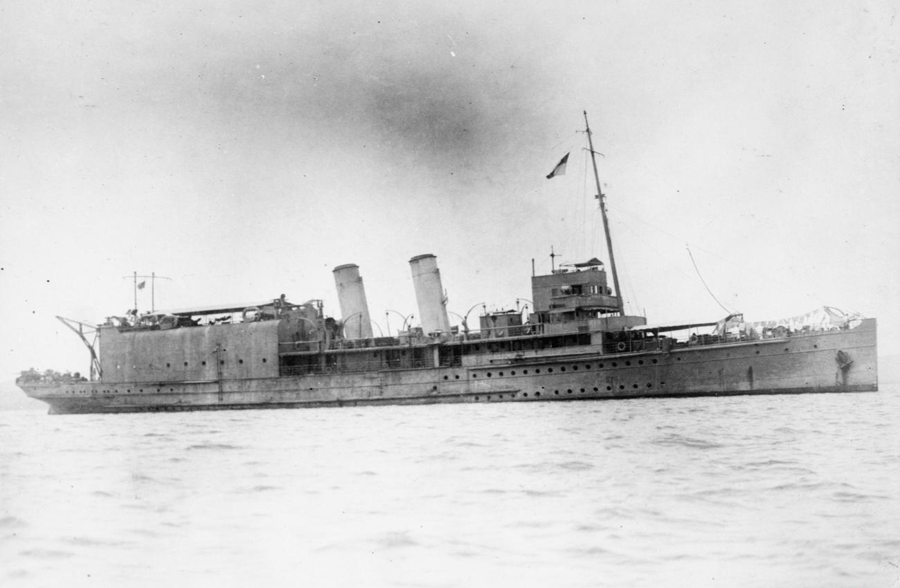 British seaplane carrier HMS EMPRESS.